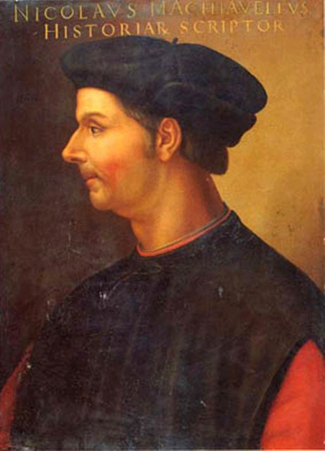 Portrait of Niccolò Machiavelli by Cristofano di Papi dell'Altissimo, Palazzo Doria Pamphilj, Roma